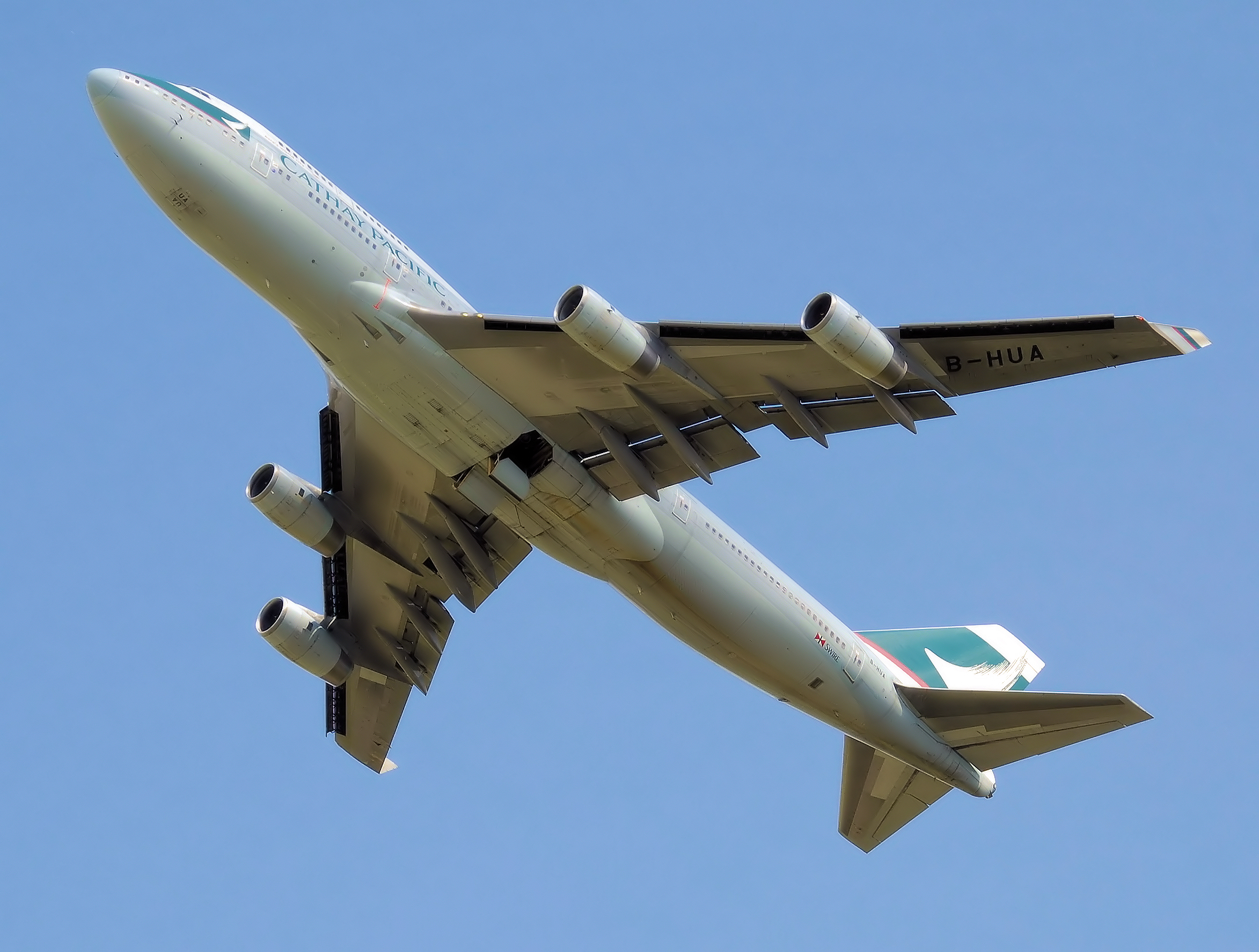 Cathay Pacific Boeing 747-400 (B-HUA) takes off from London Heathrow Airport, England. The main undercarriage doors are still closing. The nose undercarriage doors have closed.